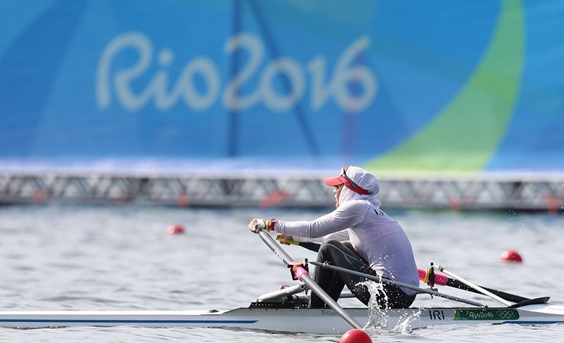 2016 Summer Olympics - Rowing - Women's single sculls